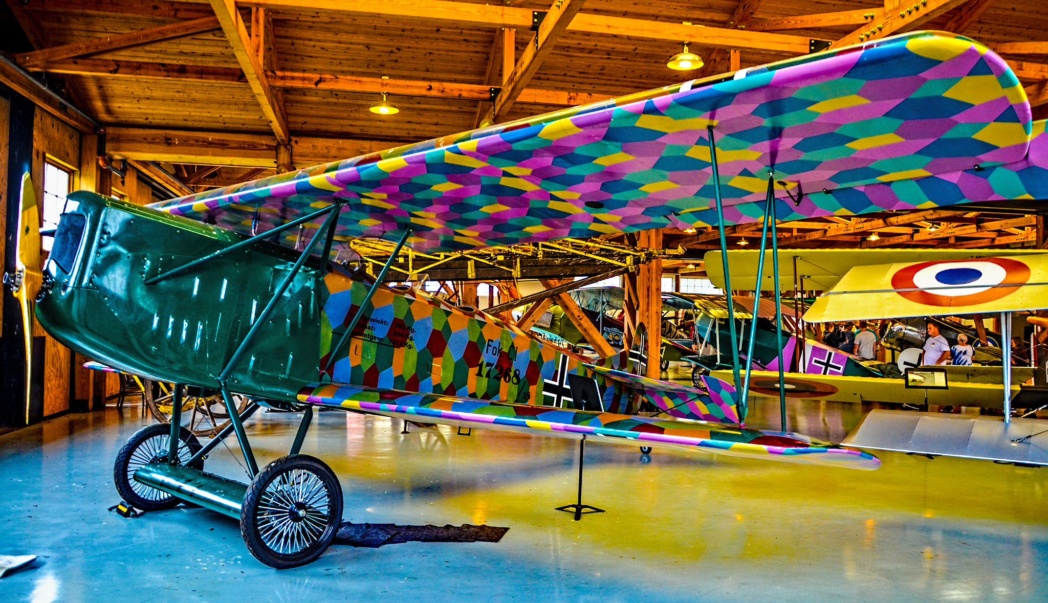 Military Aviation Museum Virginia Beach Airport (42VA) Photo: TDelCoro July 21, 2018